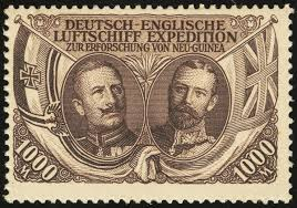 The stamp depictures Kaiser Wilhelm II of Germany and King George V of Great-Britain